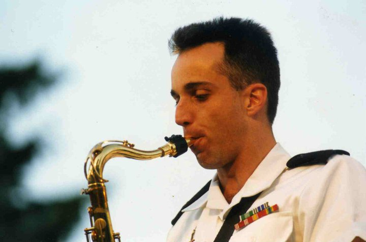 Jack Cooper, June 17, 1994 on a tour with The West Point Band's Jazz Knights, Branford, CT. This is from my own archives and is to be used in article about Jack Cooper (musician)